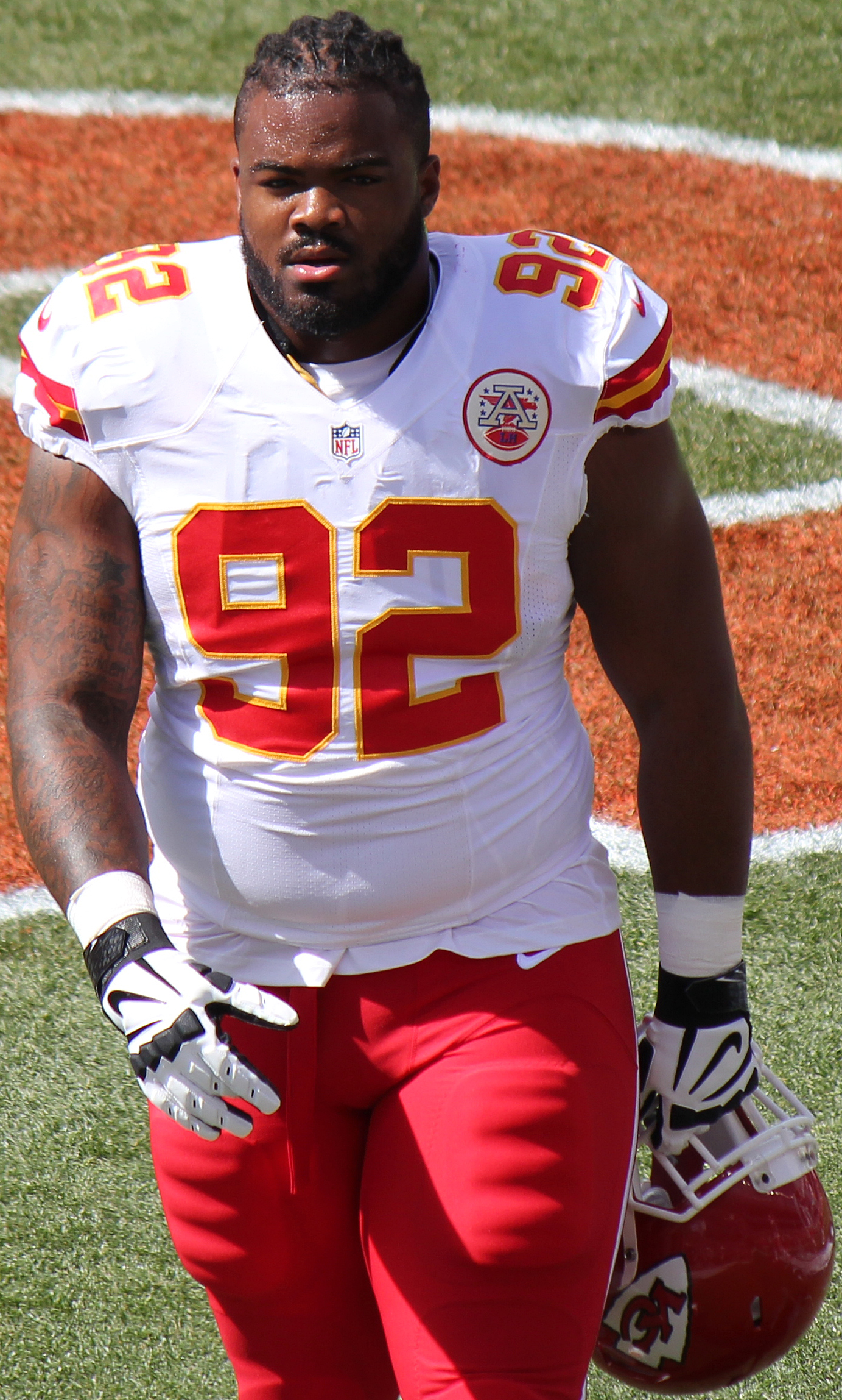 Dontari Poe, a player on the National Football League.